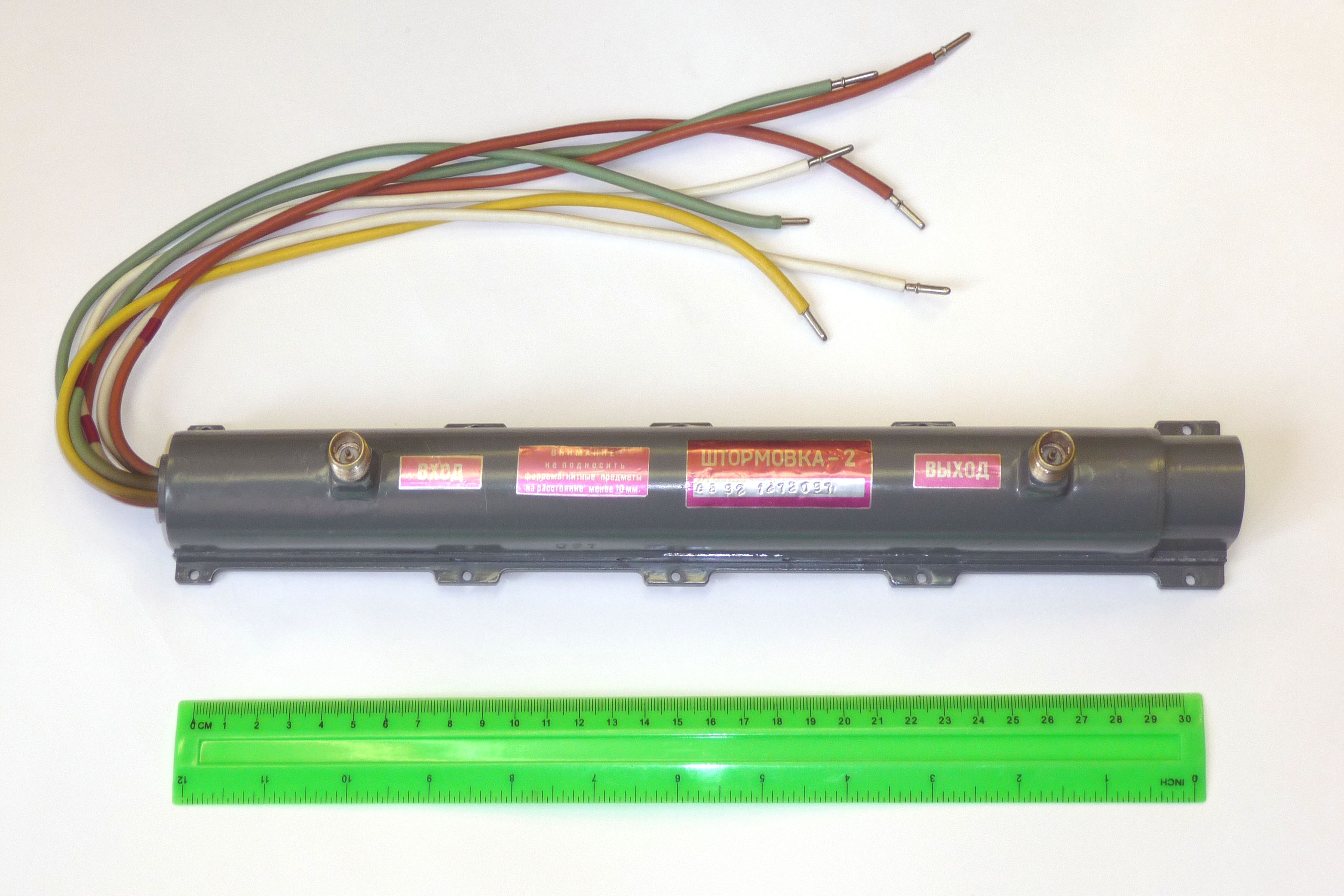 The traveling-wave tube "Shtormovka". Desined in town Fryazino Russia in the 1980's for the first in the series communications satellites "Gorizont". Chief designer of TWT "Shtormovka" is Myakinkov Yu. P.